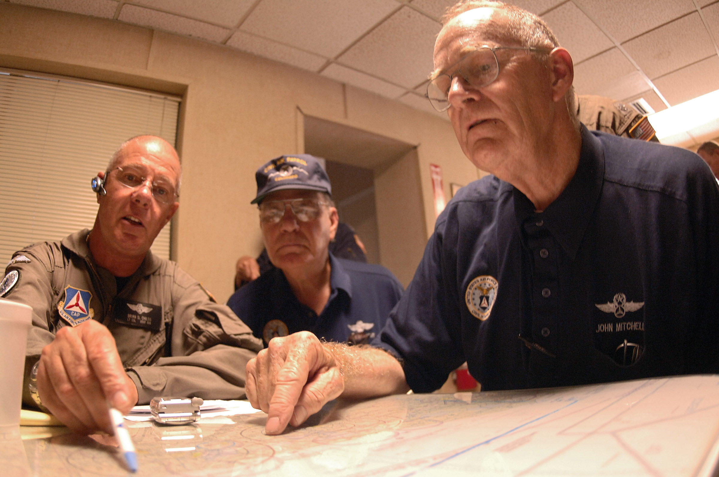 Lt. Col. Brian Childes (left) briefs Lt. Col. Bob Beabout (pilot and Major John Mitchell (right) on a sortie to Sabine Lake, Texas. Civil Air Patrol pilots from across the nation came to West Houston Airport to support the assessment of Hurricane Rita's impact. This was the second day of flight operations after the Texas CAP was requested to begin operations in Houston. By the end of 26 Sept., they completed 50 sorties, providing photo reconnaissance of potential damage and oil spills, traffic congestion, flood assessment and live multi-spectral imagery for state and federal agencies. CAP is a volunteer organization provides cost effective services that train to perform, augment and enhance a variety of operations. (U.S. Air Force photo by Master Sgt. Lance Cheung)